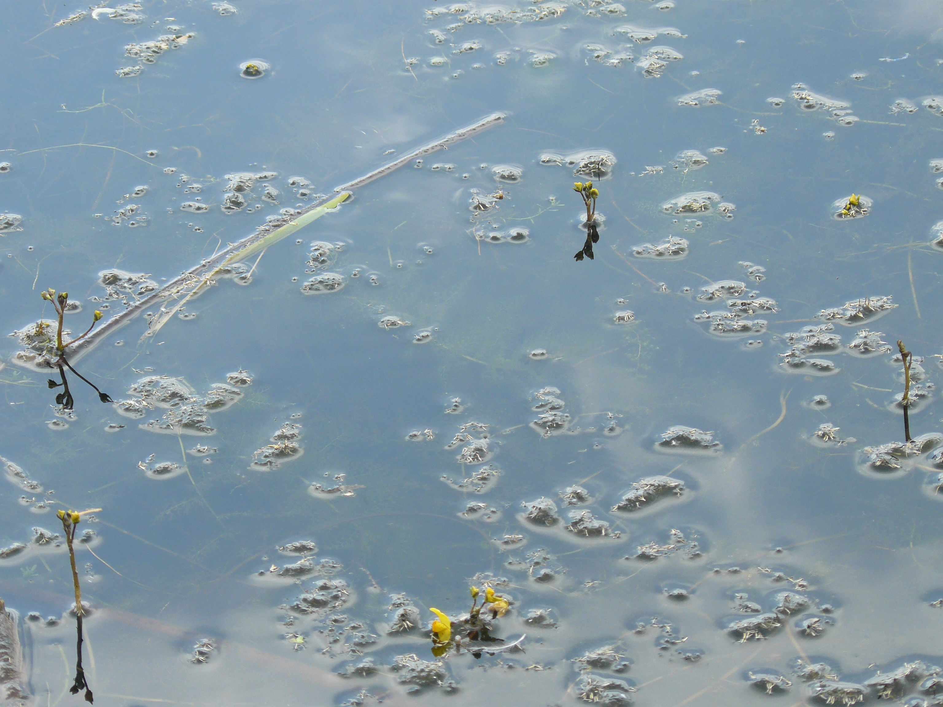 Utricularia australis in a lake of Auvergne, France